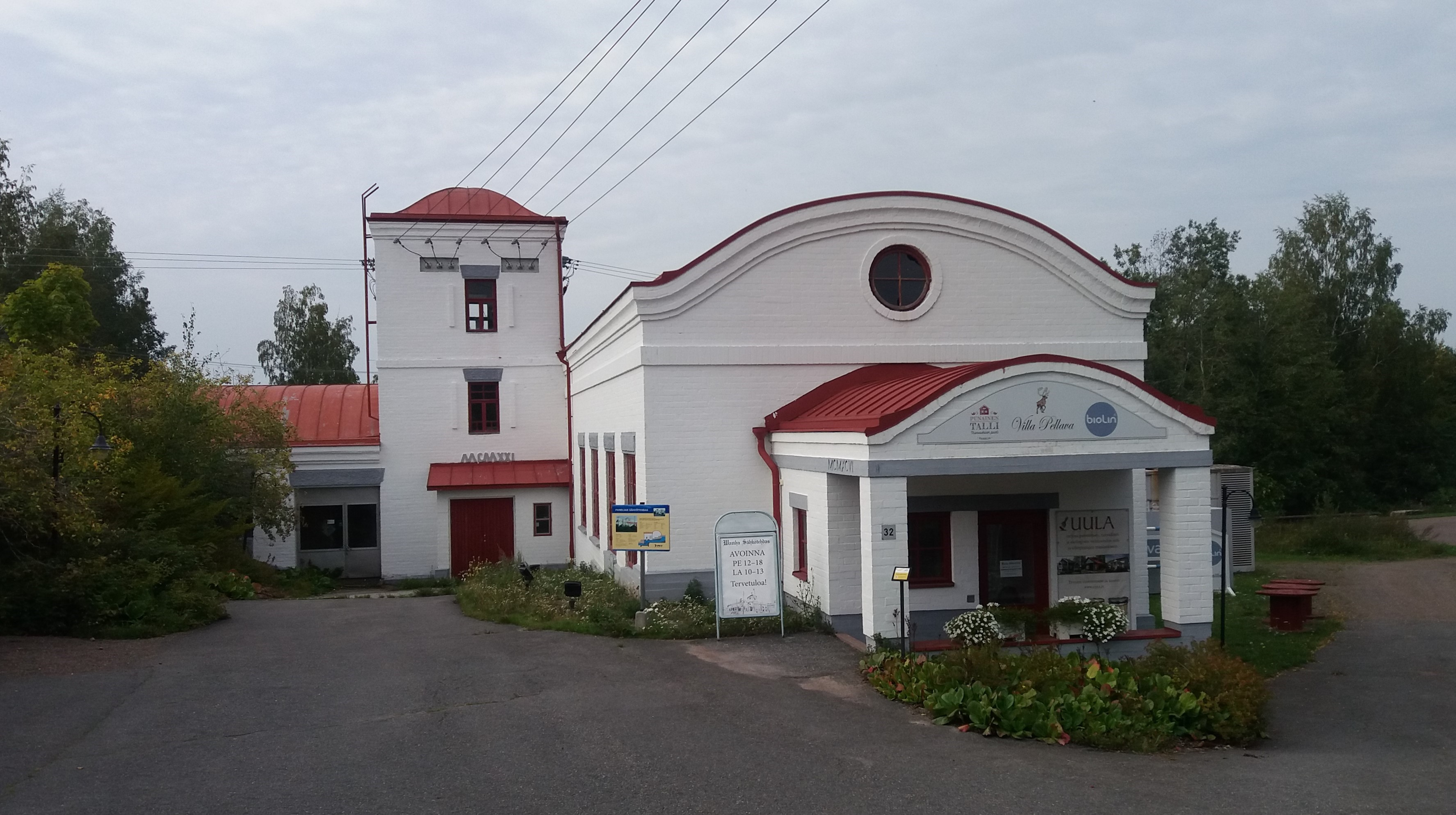 Paneliankoski hydroelectric power plant in Panelia, Finland.